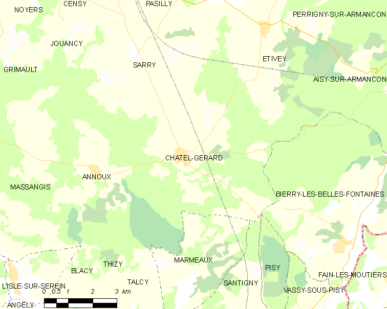 Map of French municipality Châtel-Gérard